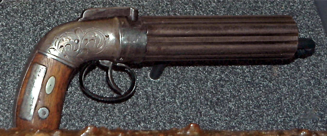 Pepper-box pistol used by Joseph Smith, Jr. in an attempt to defend himself at Carthage (Illinois) jail on June 27, 1844. Currently displayed in the Church History Museum, Salt Lake City, Utah.